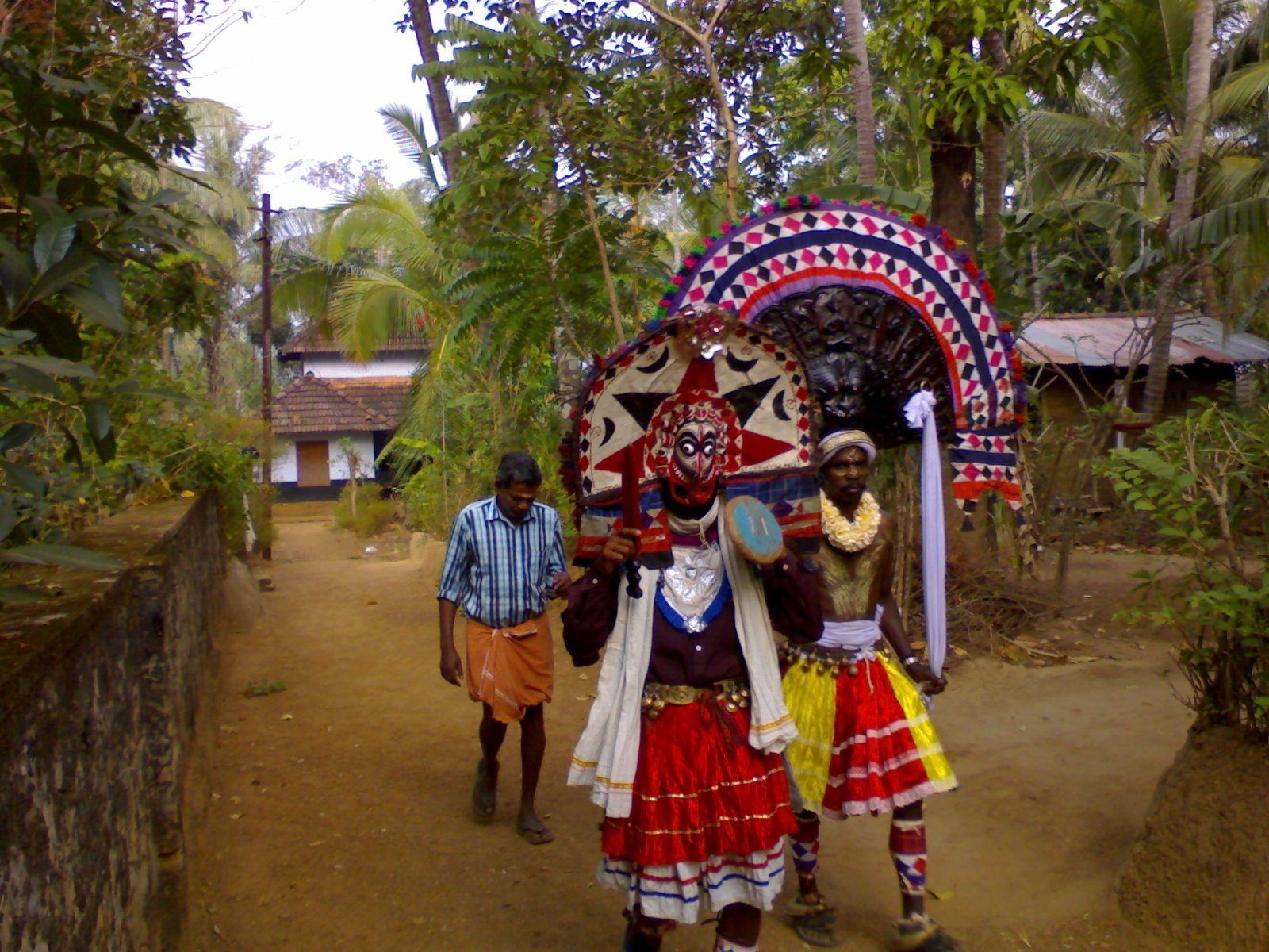 A valluvanadan art form found in valluvanad and talappilly areas